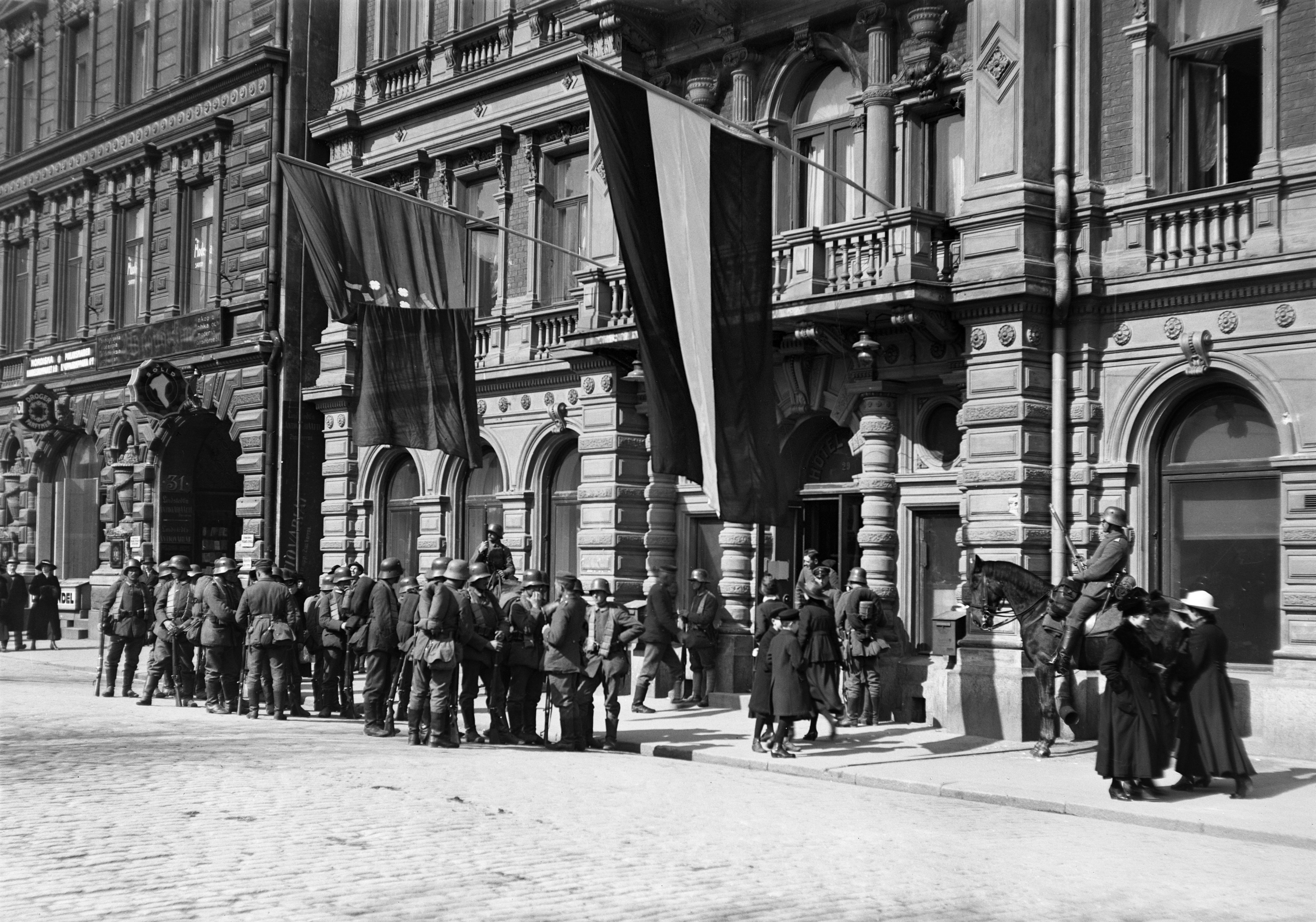 German Baltic Sea Division headquarters at Hotel Kämp, Helsinki.